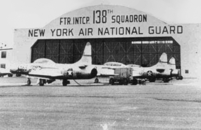 U.S. Air Force New York Air National Guard Lockheed F-94 Starfire fighters of the 138th Fighter Interceptor Squadron, Hancock Field, Syracuse, New York (USA), stand Air Defense Command runway alert, 1954.